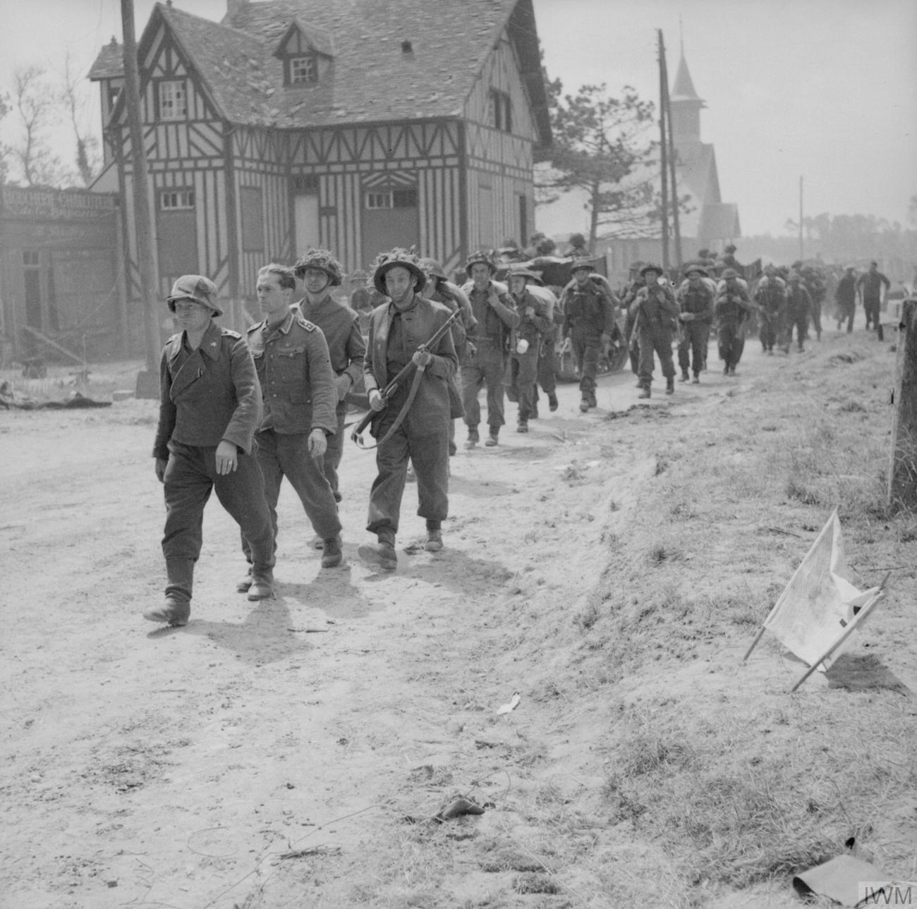 D-day - British Forces during the Invasion of Normandy 6 June 1944 German prisoners being escorted back through La Brèche d'Hermanville by men of the 2nd King's Shropshire Light Infantry, 6 June 1944.